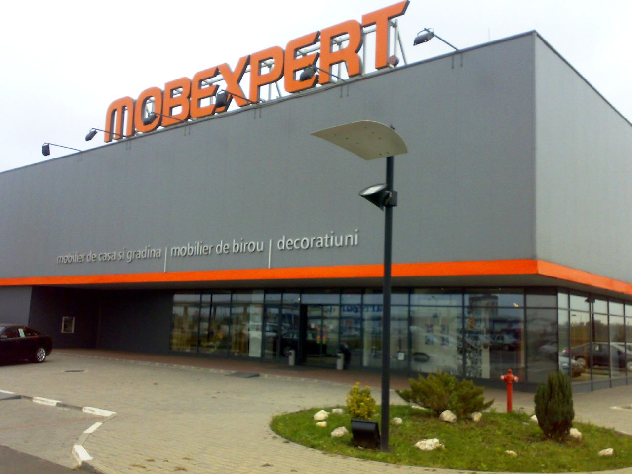 Mobexper Militari is a romanian furnishing company